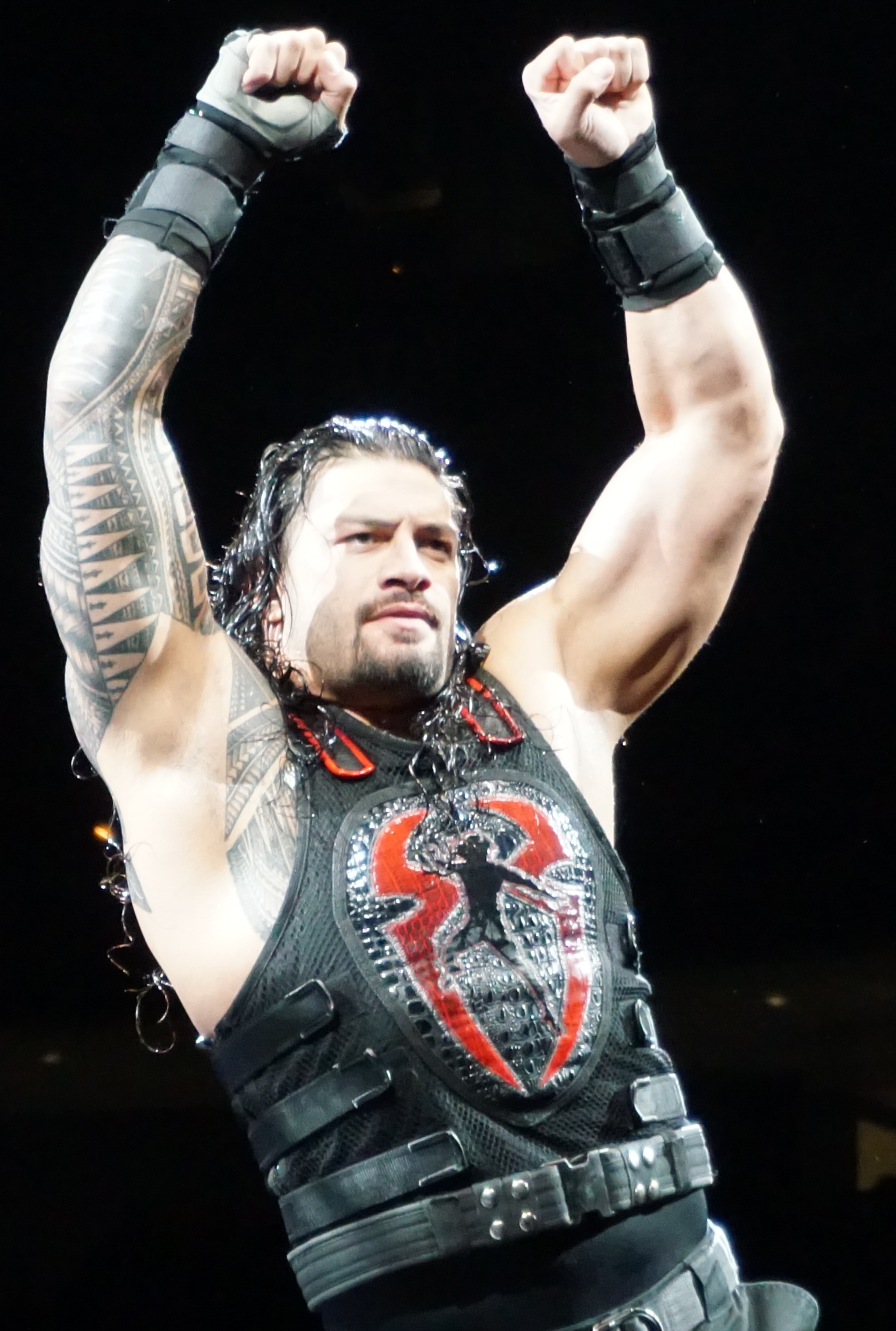 Reigns at the WWE live show in Buffalo, NY on March 25th, 2018